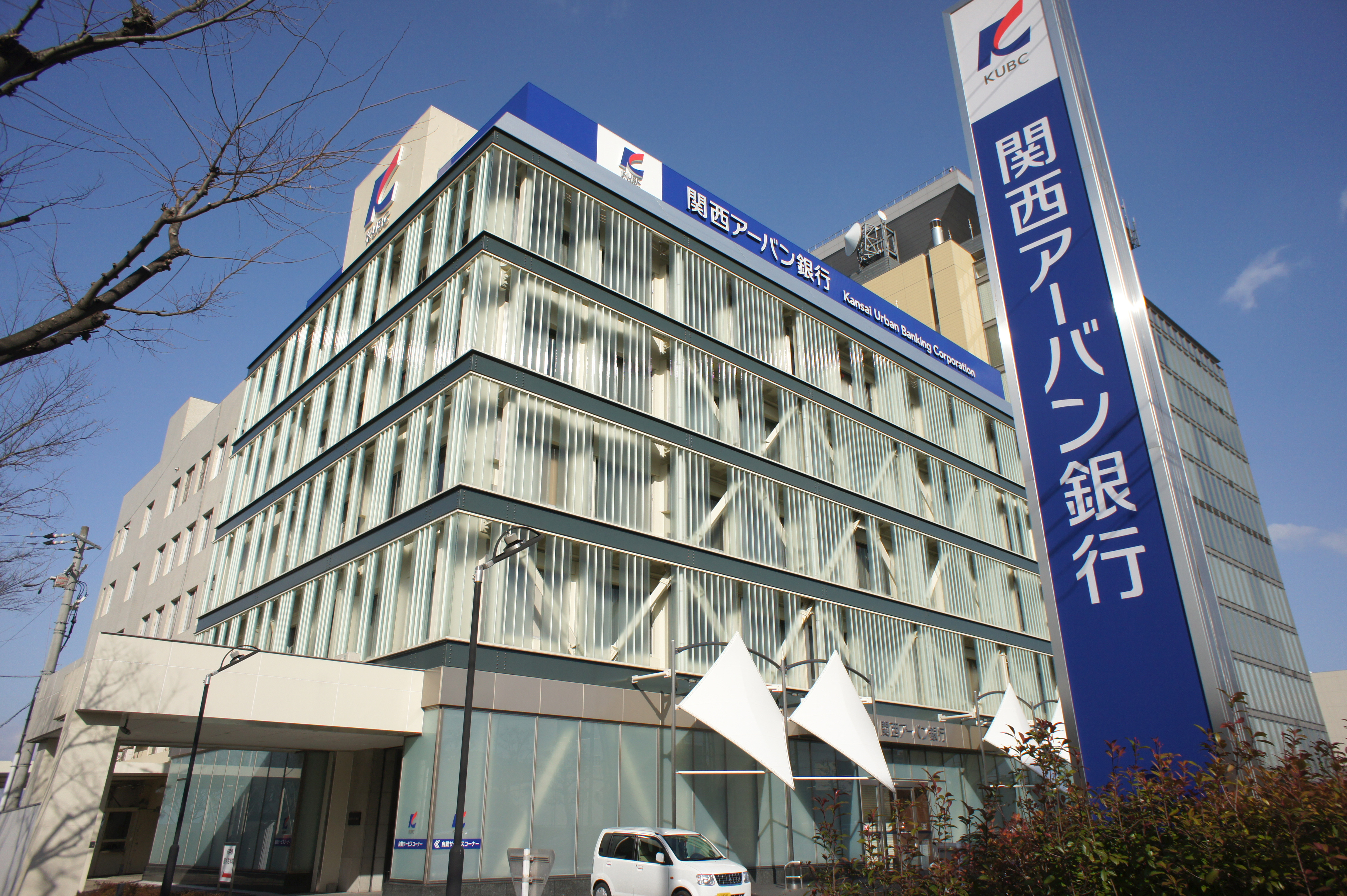 Kansai Urban Banking Corporation Biwako headquarters, 4-5-12 Chuo Otsu-City Shiga JAPAN.